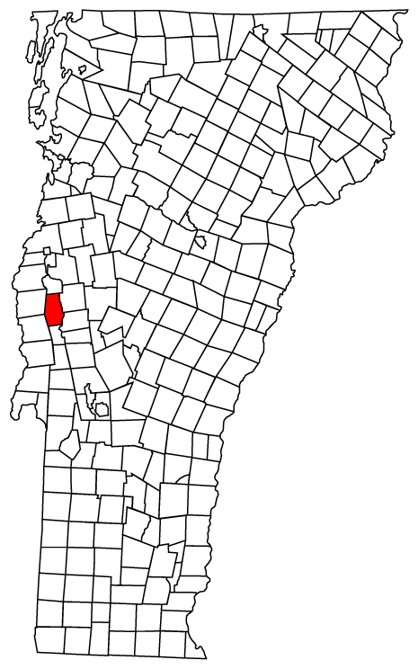 Description: Map of Vermont towns with Cornwall highlighted Source: Map created by Jared C. Benedict on 26 March 2004. Copyright: © Jared C. Benedict.